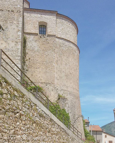 The apse of the cathedral of Marsico Nuovo (last restoration of 2017) after the 1980 earthquake in Irpinia.